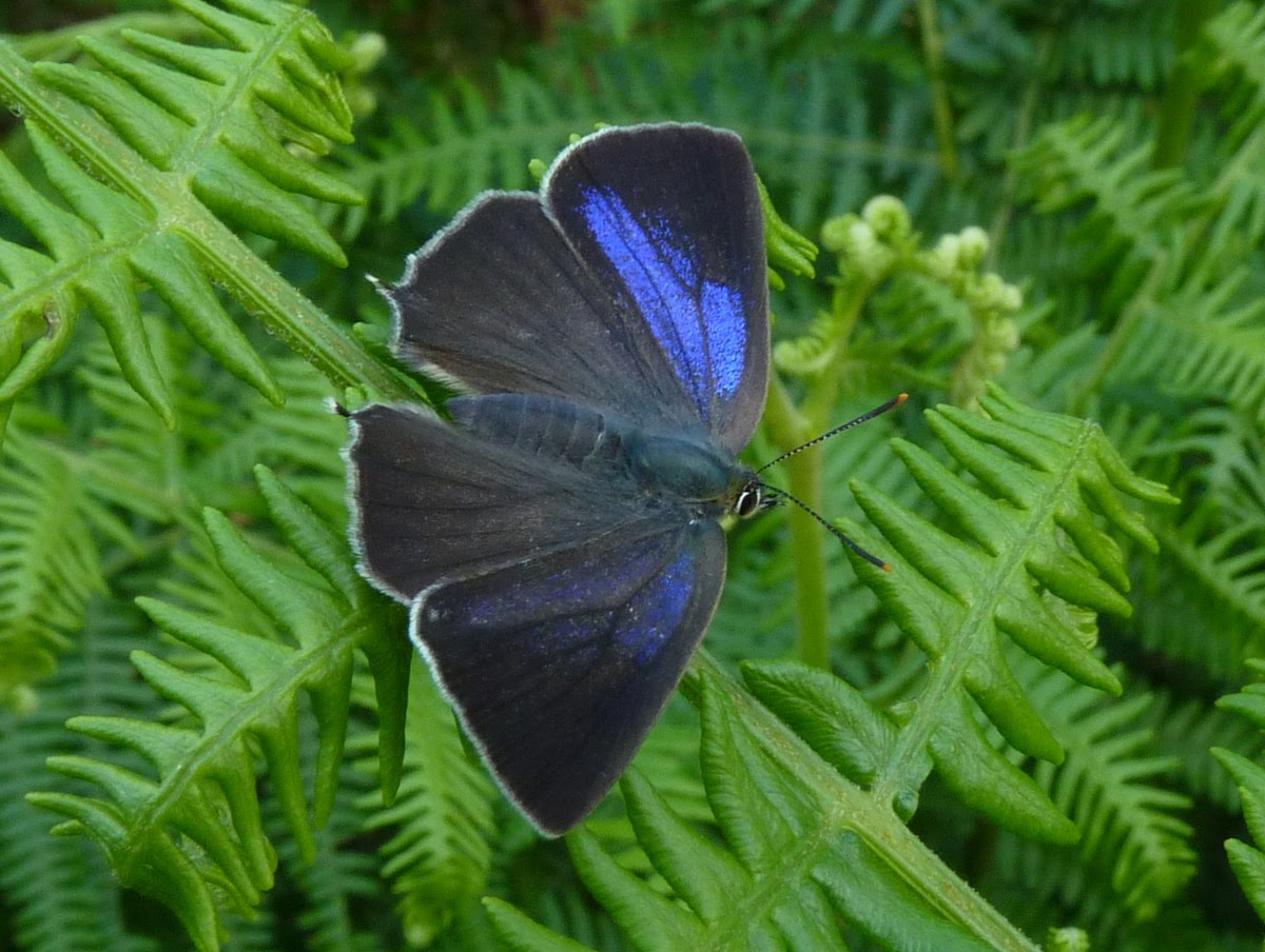 Purple Hairstreak on Bracken with open wings.